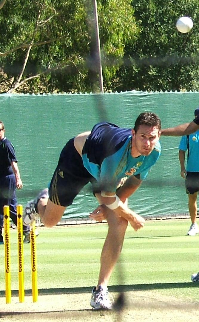 Shaun Tait at a training session at the Adelaide Oval